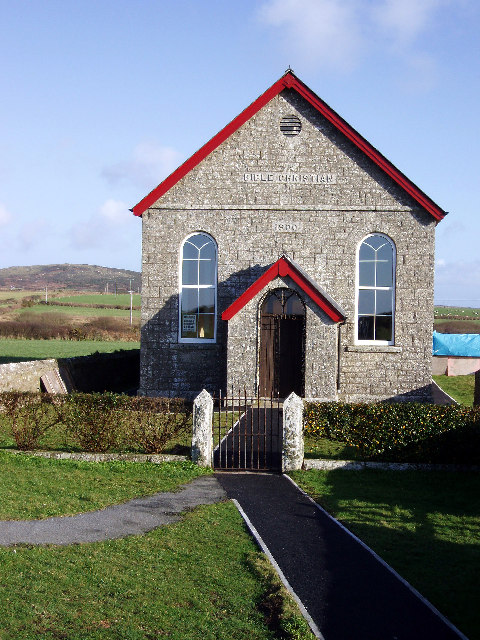 Methodist chapel in Escalls, Cornwall, built by the Bible Christians in 1900, and still used for worship